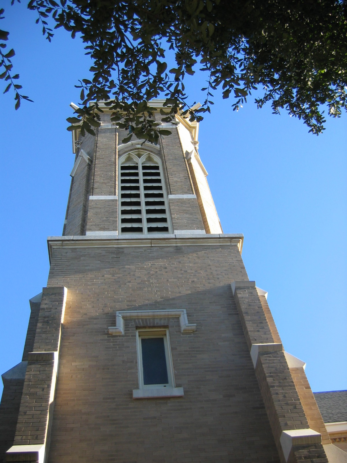 This is a bell tower of a church. It was built in 1907. The style is Gothic.